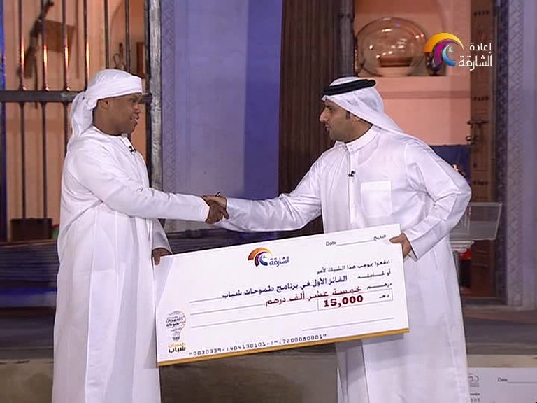 Mohamed Osman Baloola won 1st prize in Tomohat Shabab at Sharjah TV . 15,000 Dhs from Sharjah TV.